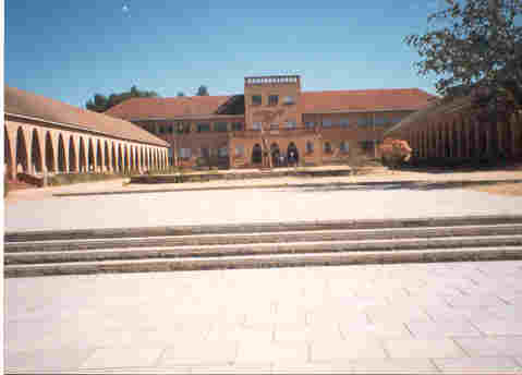 The front of Kutama College in 1994.